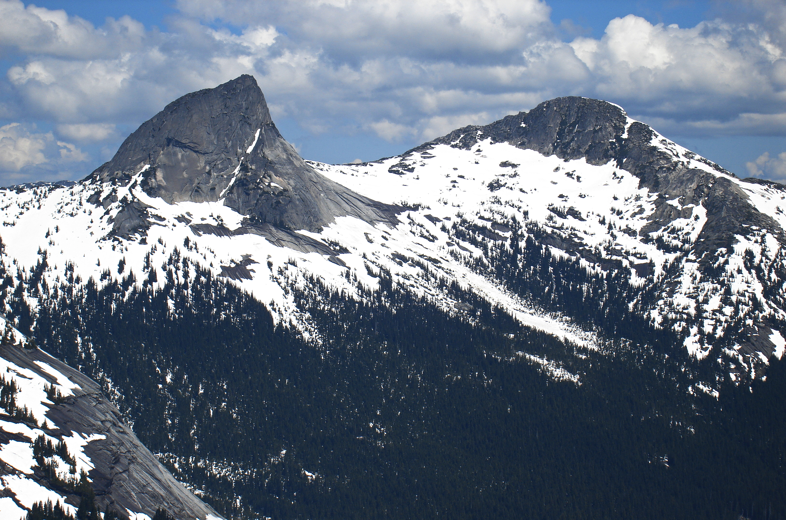 View from Mt. Zupjok looking north, with Vicuna Peak on left and Guanaco Peak on right.